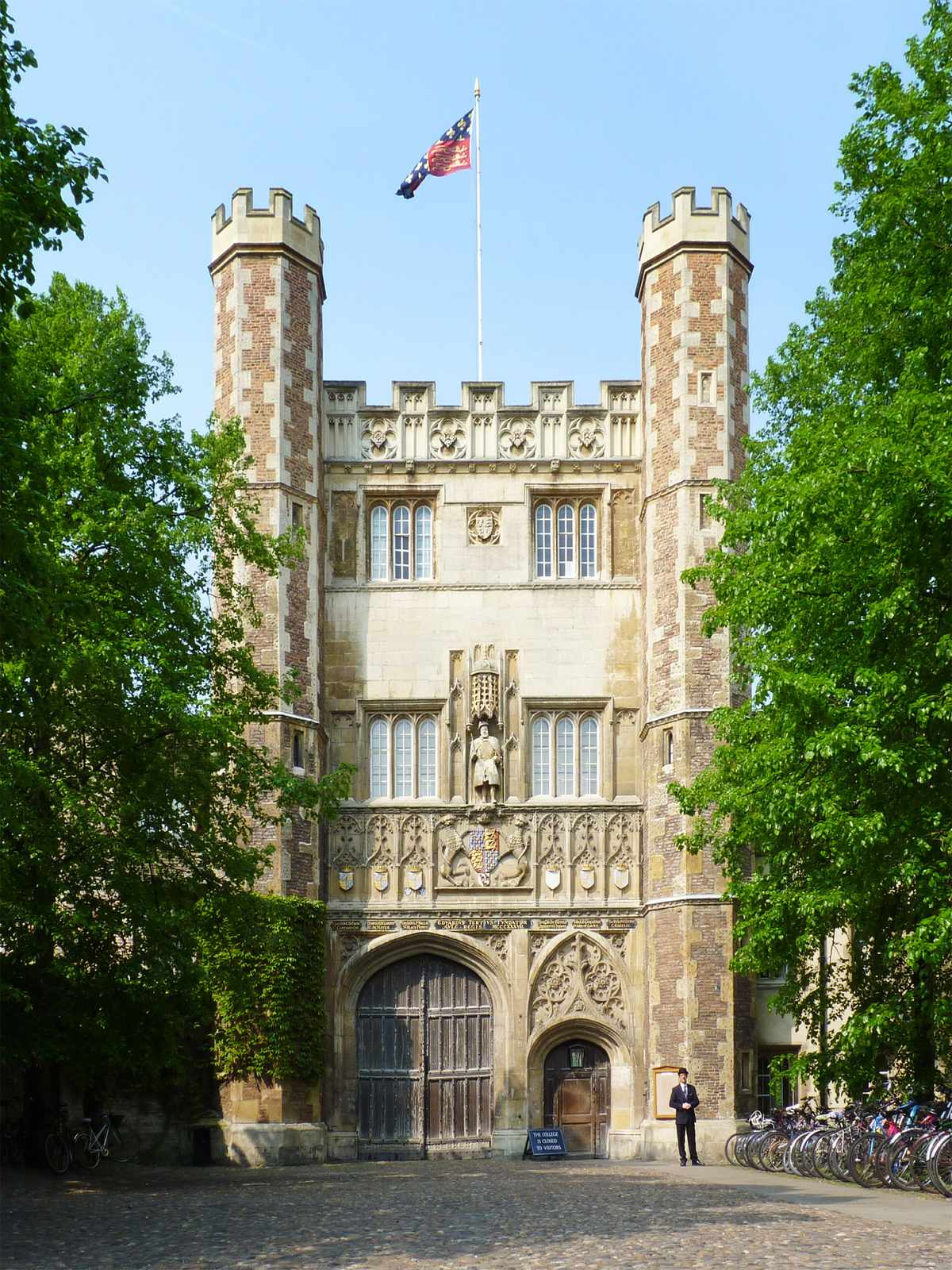 The Great Gate is the main entrance to Trinity College, Cambridge. The gate leads through to the Great Court.